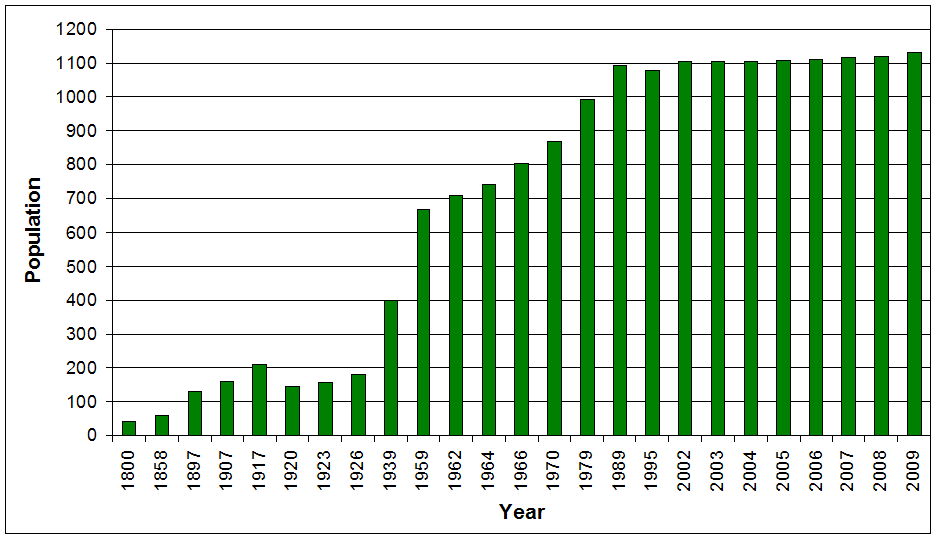 Kazan population dynamics. Population amount in thousands.